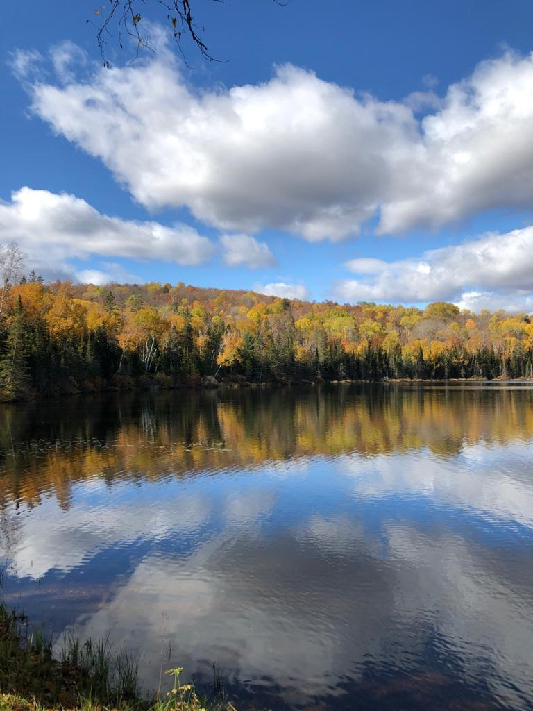 Photo of Little Papineau Lake